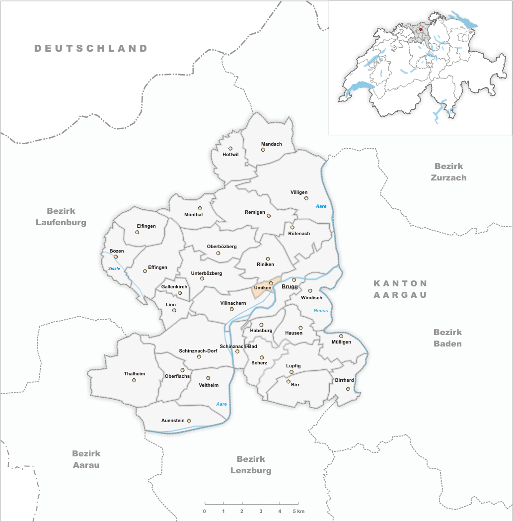 Municipality Umiken